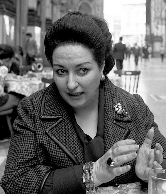 The Spanish soprano Montserrat Caballé sitting at a bar table in Galleria Vittorio Emanuele II. Milan, 1971